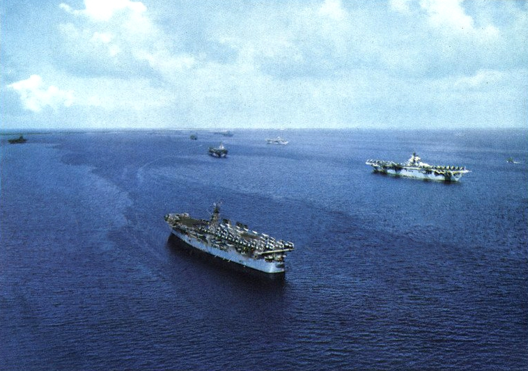 U.S. Navy aircraft carriers at anchor, probably at Majuro or Ulithi, circa in 1944. In the foreground is the light aircraft carrier USS Bataan (CVL-29).